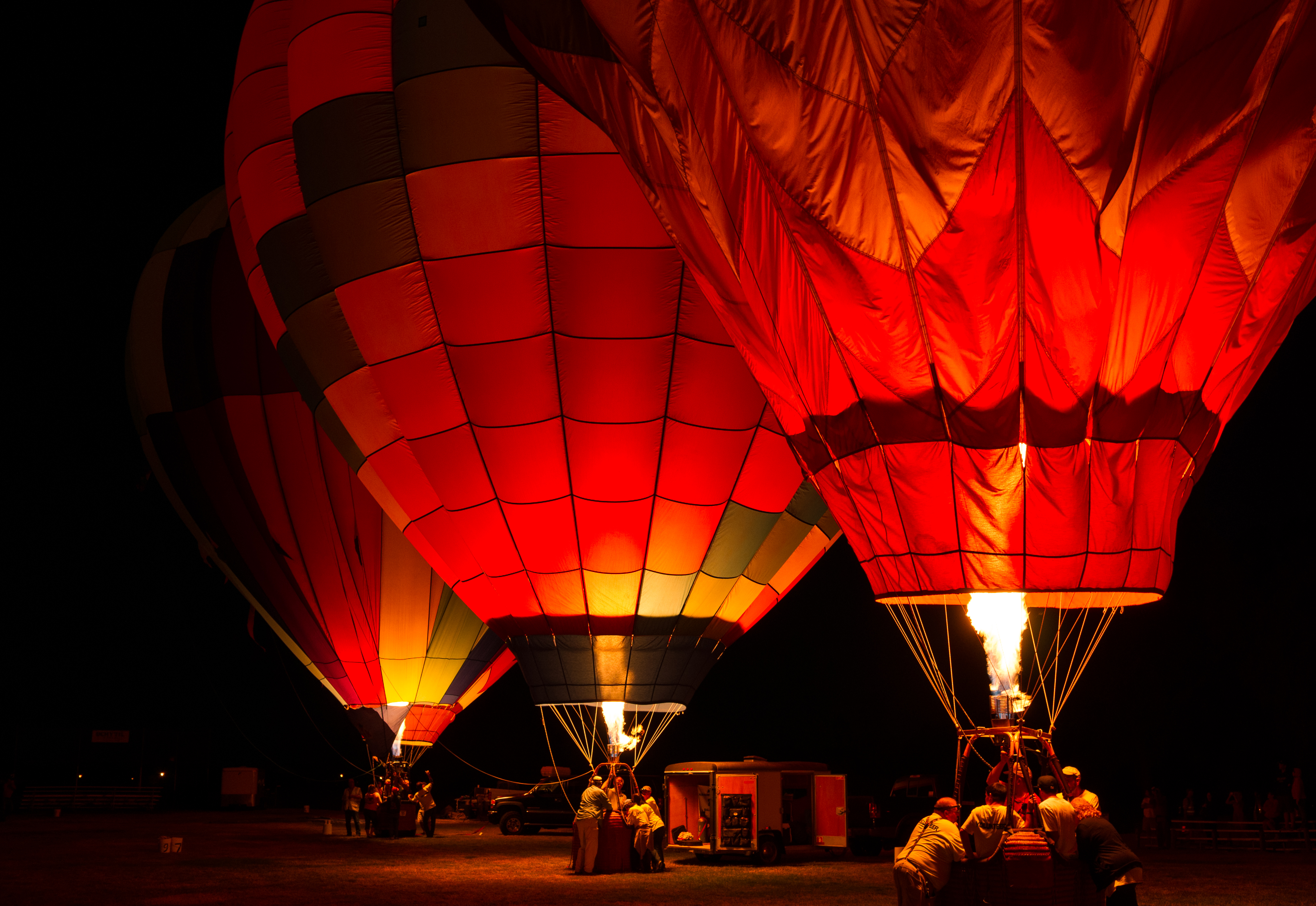 Sonoma County Hot Air Balloon Classic in Windsor, California. Dawn Patrol on Sunday, June 17, 2012.